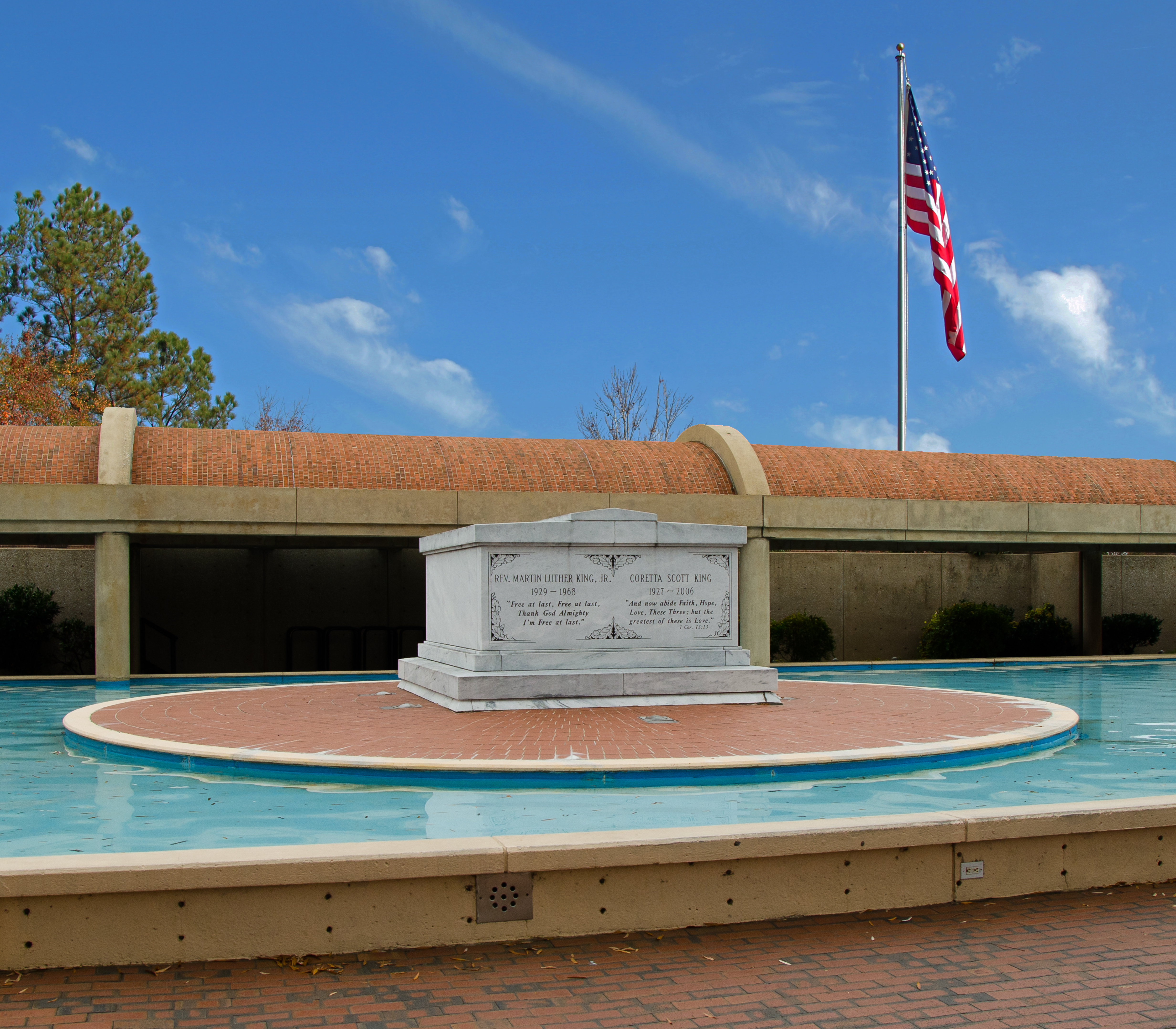 The tomb of Dr. Martin Luther King, Jr. and Coretta Scott King in Atlanta, Georgia at the base of the cascading reflecting pool at the Martin Luther King Center for Non Violence.